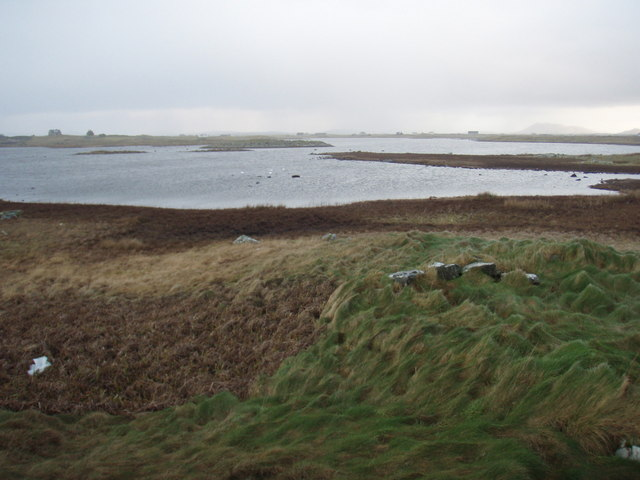 Loch Dùn Mhurchaidh Very heavy rain falling when I took the photo, very changeable all day.